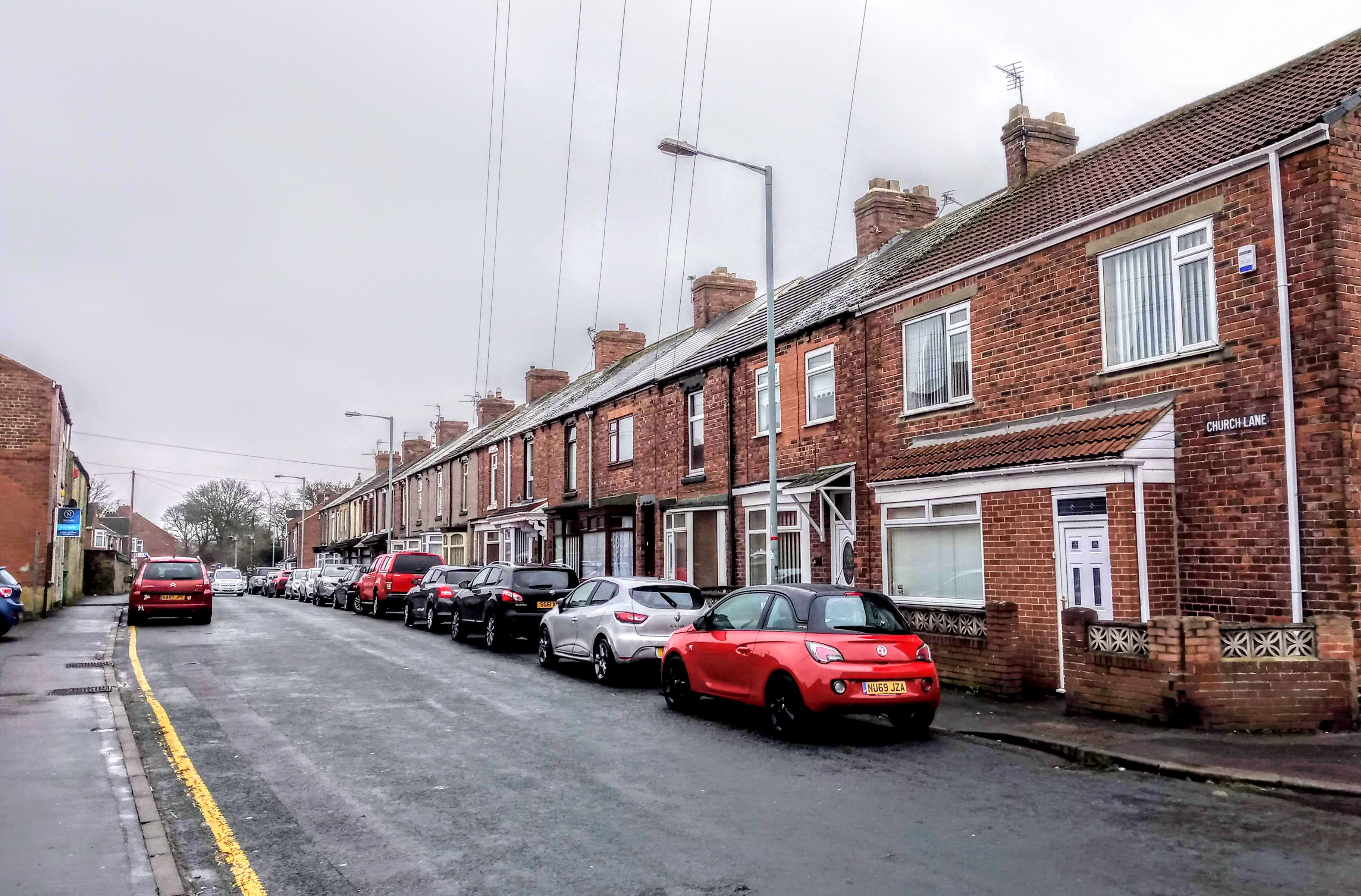 Ferryhill